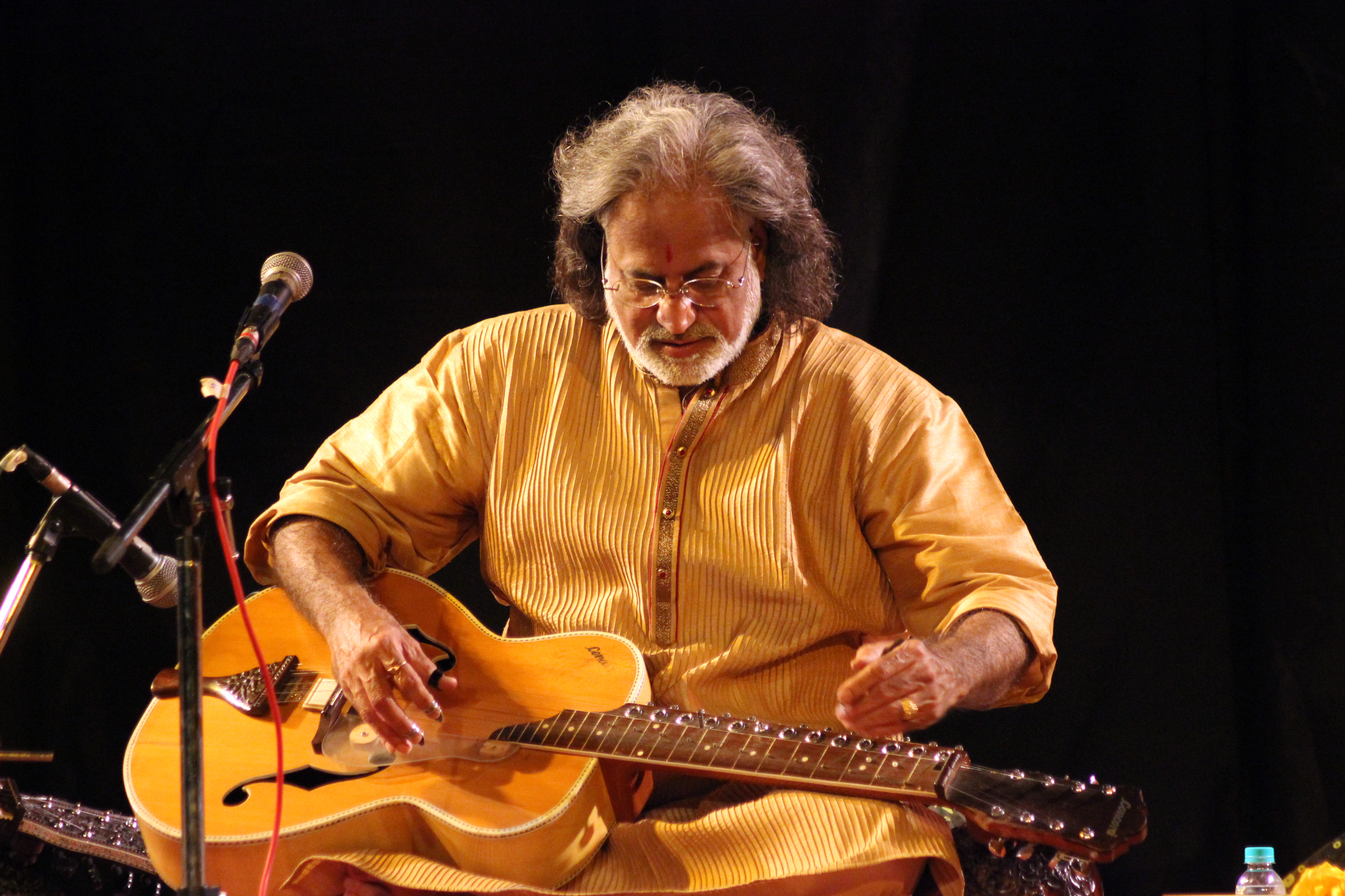 Vishwa Mohan Bhatt playing Mohan Veena , at Bhopal, India February 2017